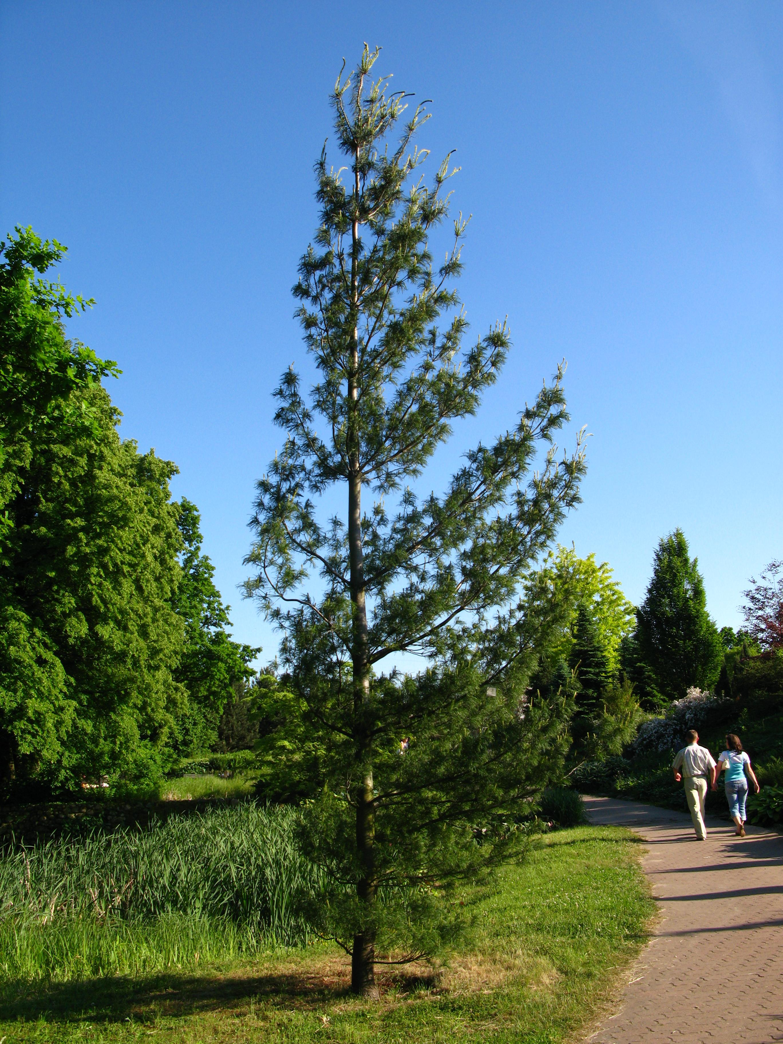 Pinus strobus cv. 'Tortuosa' in PAN Botanical Garden in Warsaw